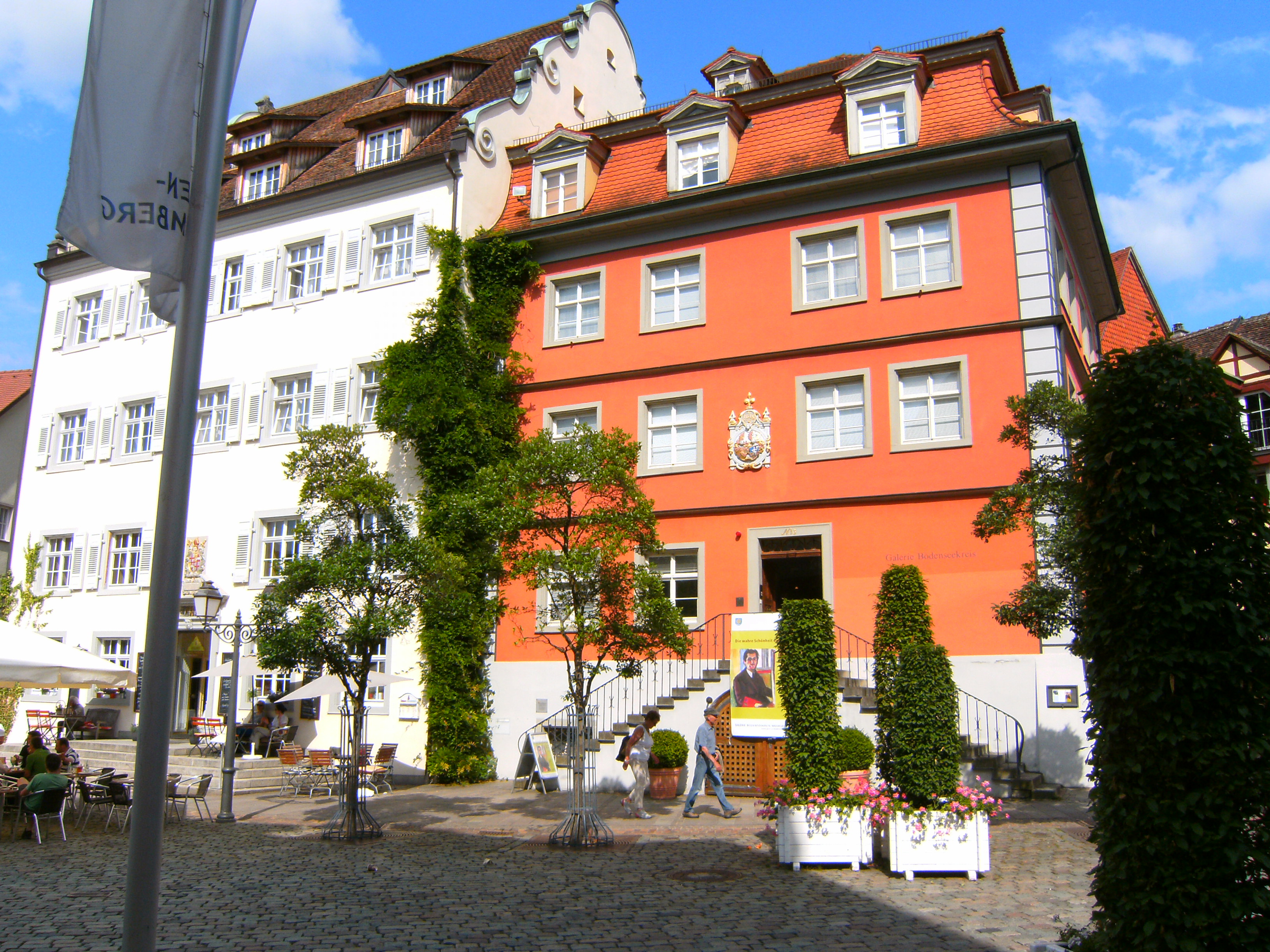 Schlossplatz 13 in Meersburg opposite the Neues Schloss (Meersburg).